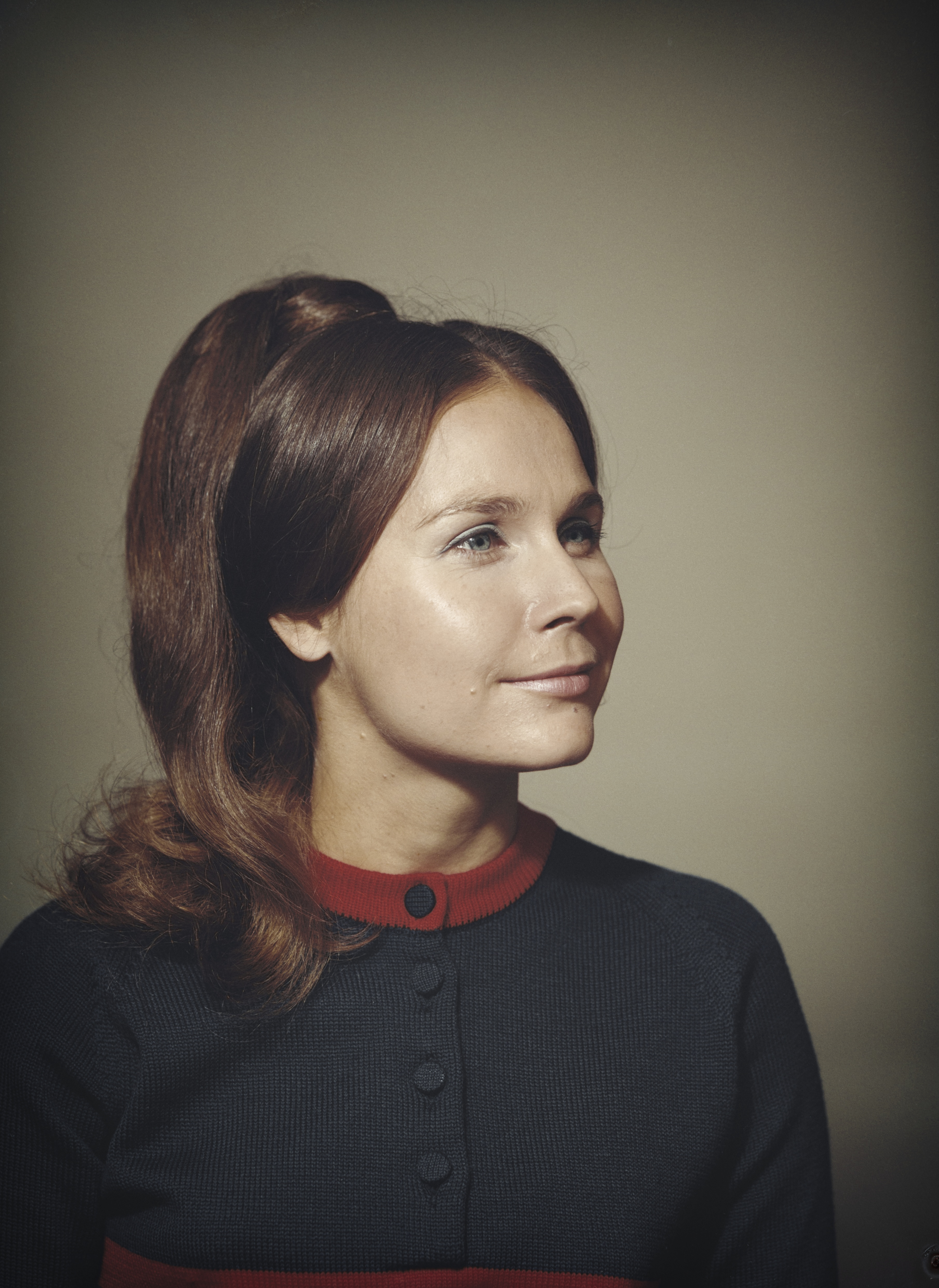 Photograph of the Finnish dentist and politician Anna-Kaarina Louvo (1937–).